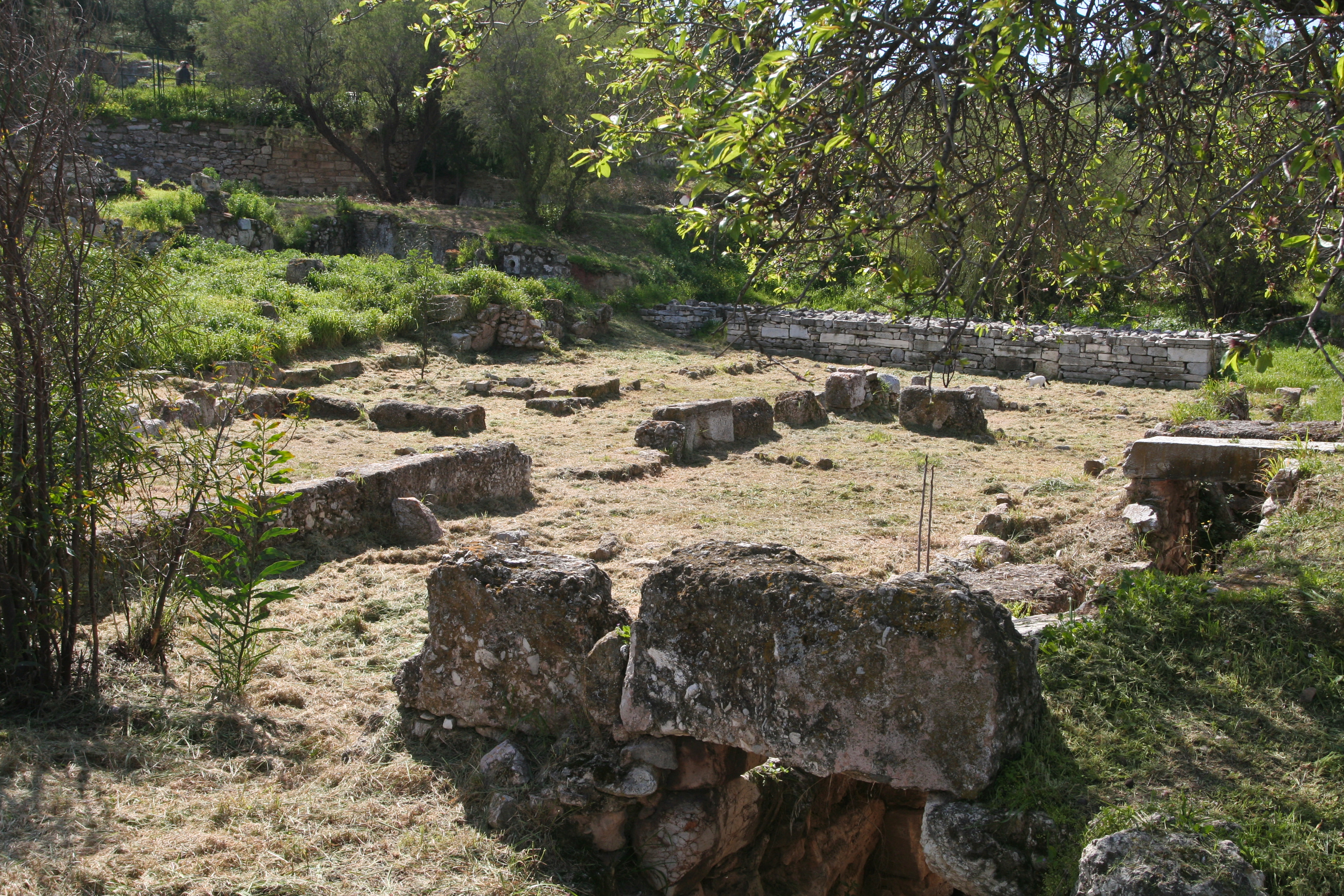 This is the State Prison just outside the walls of the Athenian Agora. Socrates is believed to have been held and killed in this location as hemlock bottles have been recovered here.